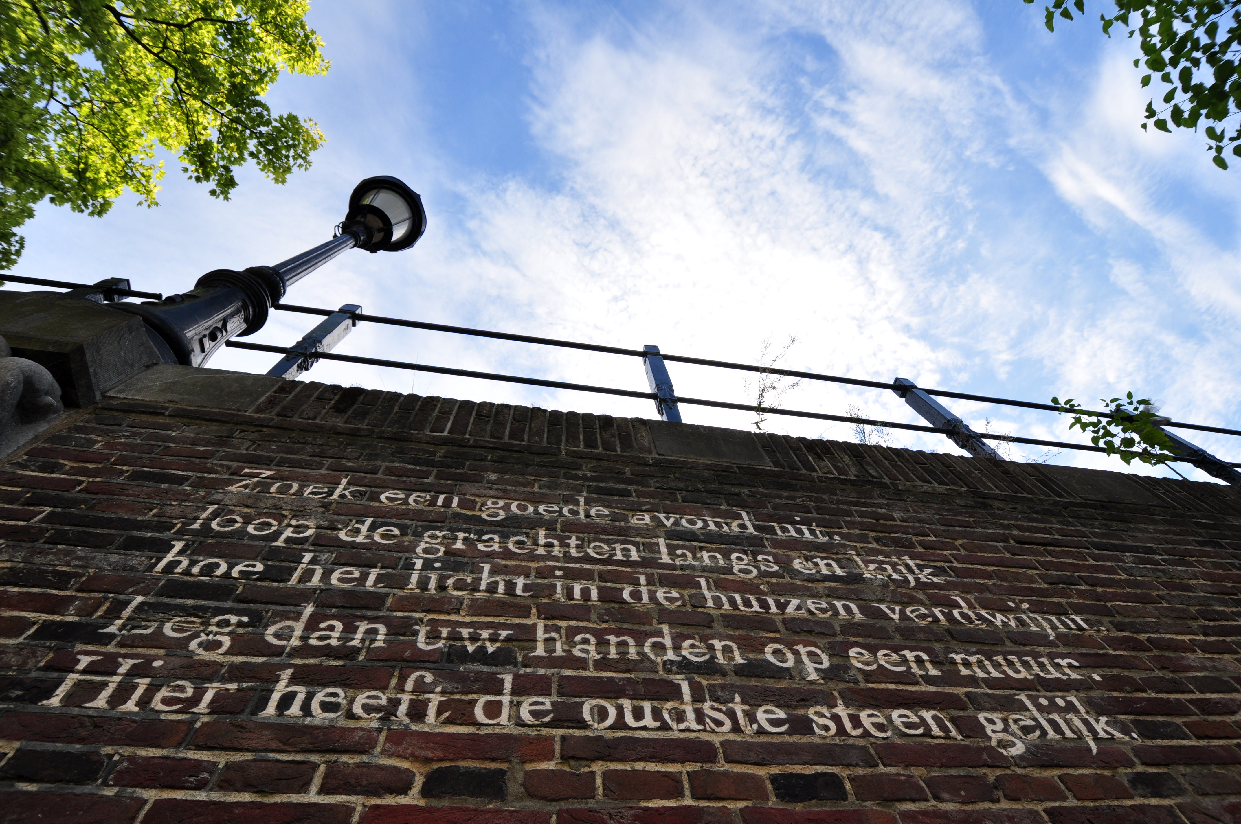 Poem Utrecht voor beginners from Ingmar Heytze, Oudegracht aan de Werf around number 36.